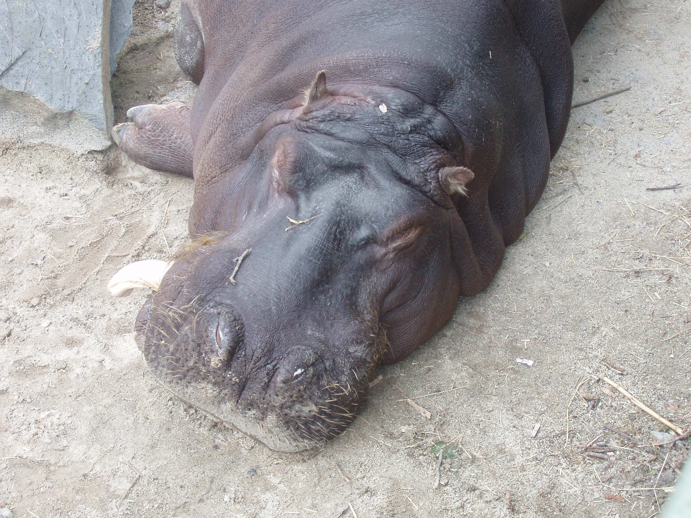 Henry the Hippo at Dublin Zoo with his tusk.